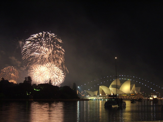 2005 Sydney Harbour New Year's Eve Fireworks over Sydney Harbour Bridge and Sydney Opera House